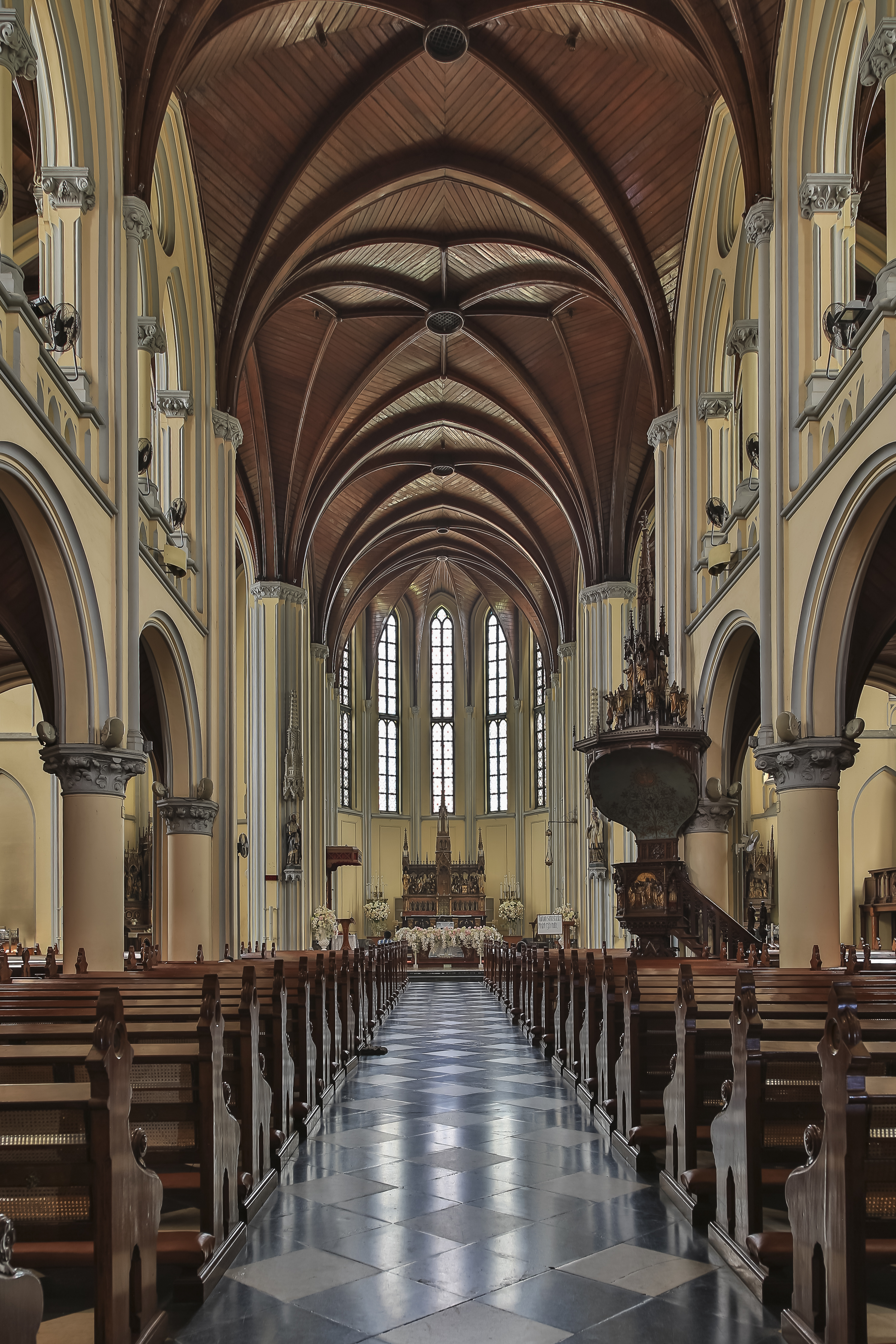 Jakarta, Indonesia: Interior view of the Jakarta Cathedral "De Kerk van Onze Lieve Vrowe ten Hemelopneming - The Church of Our Lady of the Assumption" .